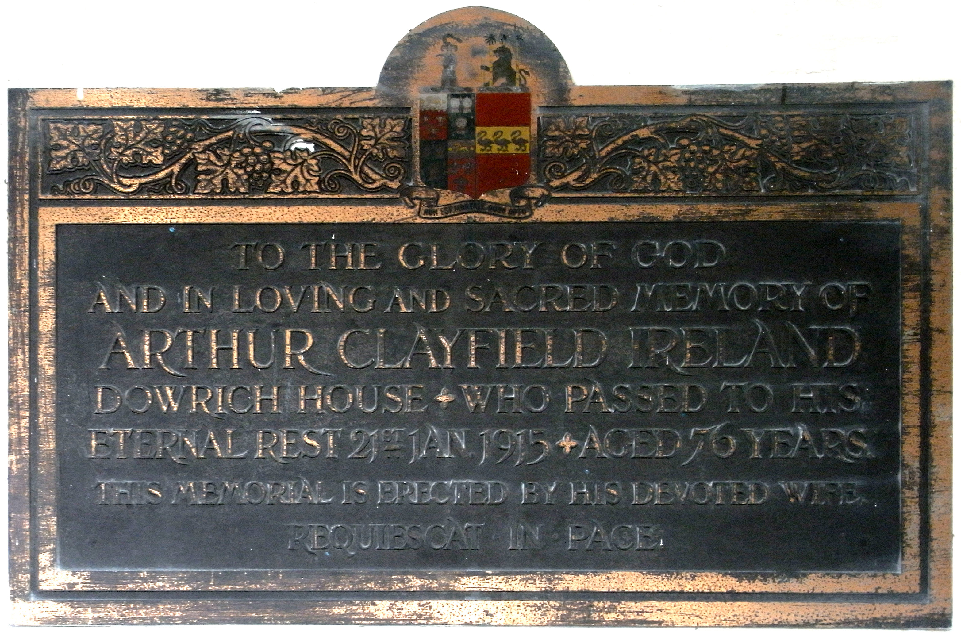 Brass memorial tablet to Arthur Clayfield-Ireland (1839-1915) of Dowrich House in the parish of Sandford, Devon. Sandford Church. Inscribed as follows: "To the glory of God and in loving and sacred memory of Arthur Clayfield Ireland, Dowrich House, who passed to his eternal rest 21st Jan. 1915 aged 76 years. This memorial is erected by his devoted wife. Requiescat in Pace". The escutcheon above shows the following arms: Quarterly of 4: 1st & 4th: Gules, three fleurs-de-lis argent each charged with a goutte-de-sang on a chief indented of the second a lion passant of the field between two torteaux(Ireland); 2nd & 3rd: Vert guttee d'or, three garbs erminois banded gules (Clayfield) (Fox-Davies, Armorial families, p.276) impaling: Gules, on a fess or three swans passant sable (Pitman, for his wife, Mary Anne Emily Pitman, daughter of Capt. William Pitman, Royal Navy)